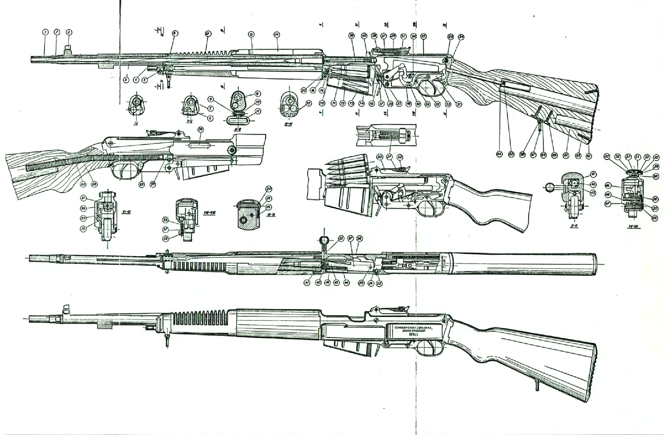 Automatic Rifle "ZH" Mod.29 cutaway scheme